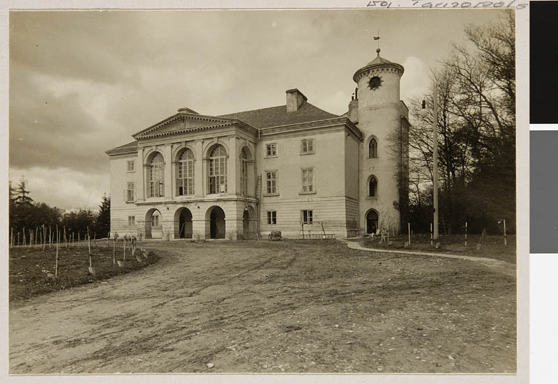 Grzymałów. Palace of Count Piniński - general view from the front